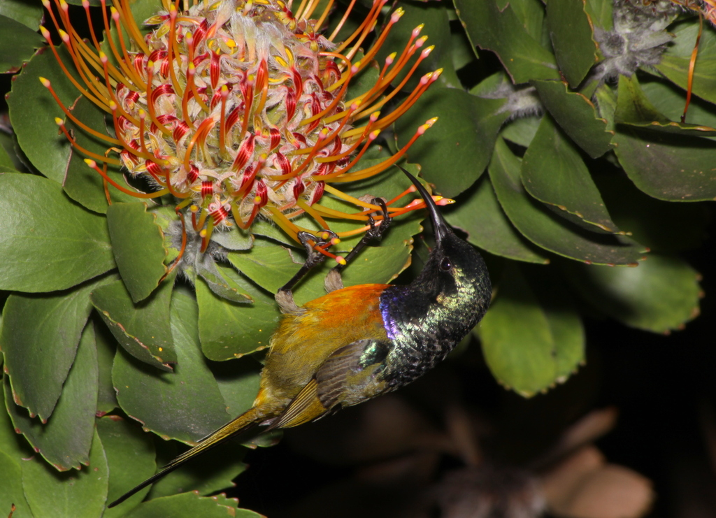 Orange breasted sunbird getting nectar from pincushion